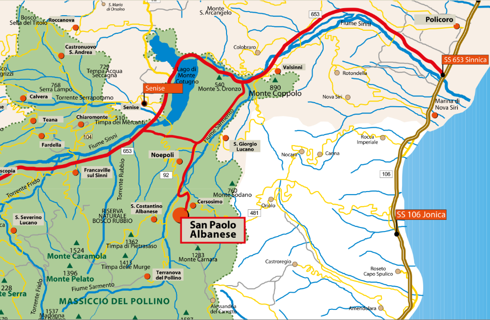 Position of San Paolo Albanese